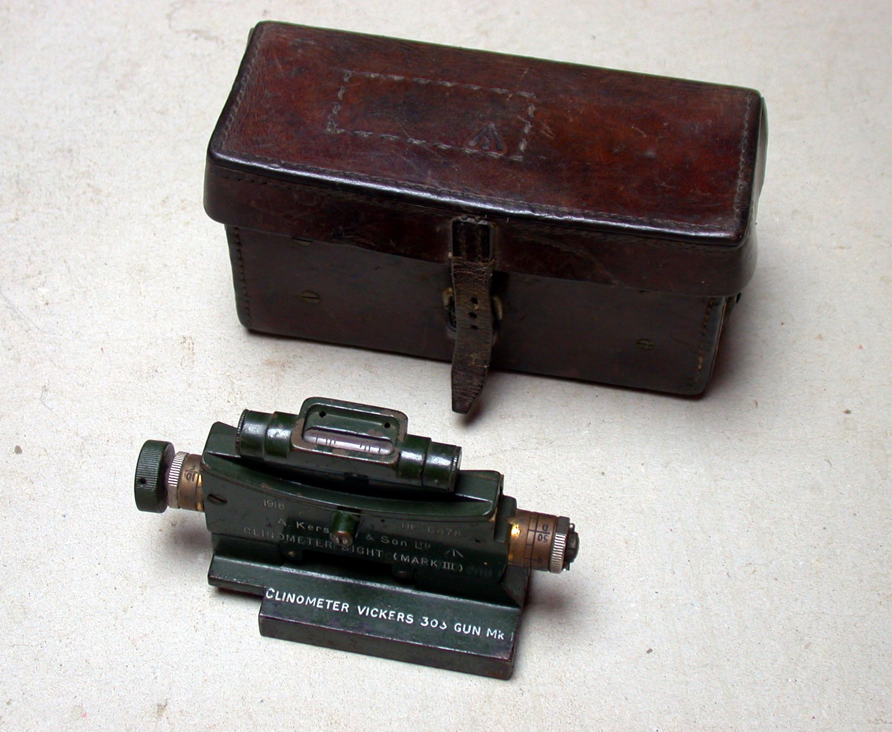 Clinometer for Vickers .303 Machinegun